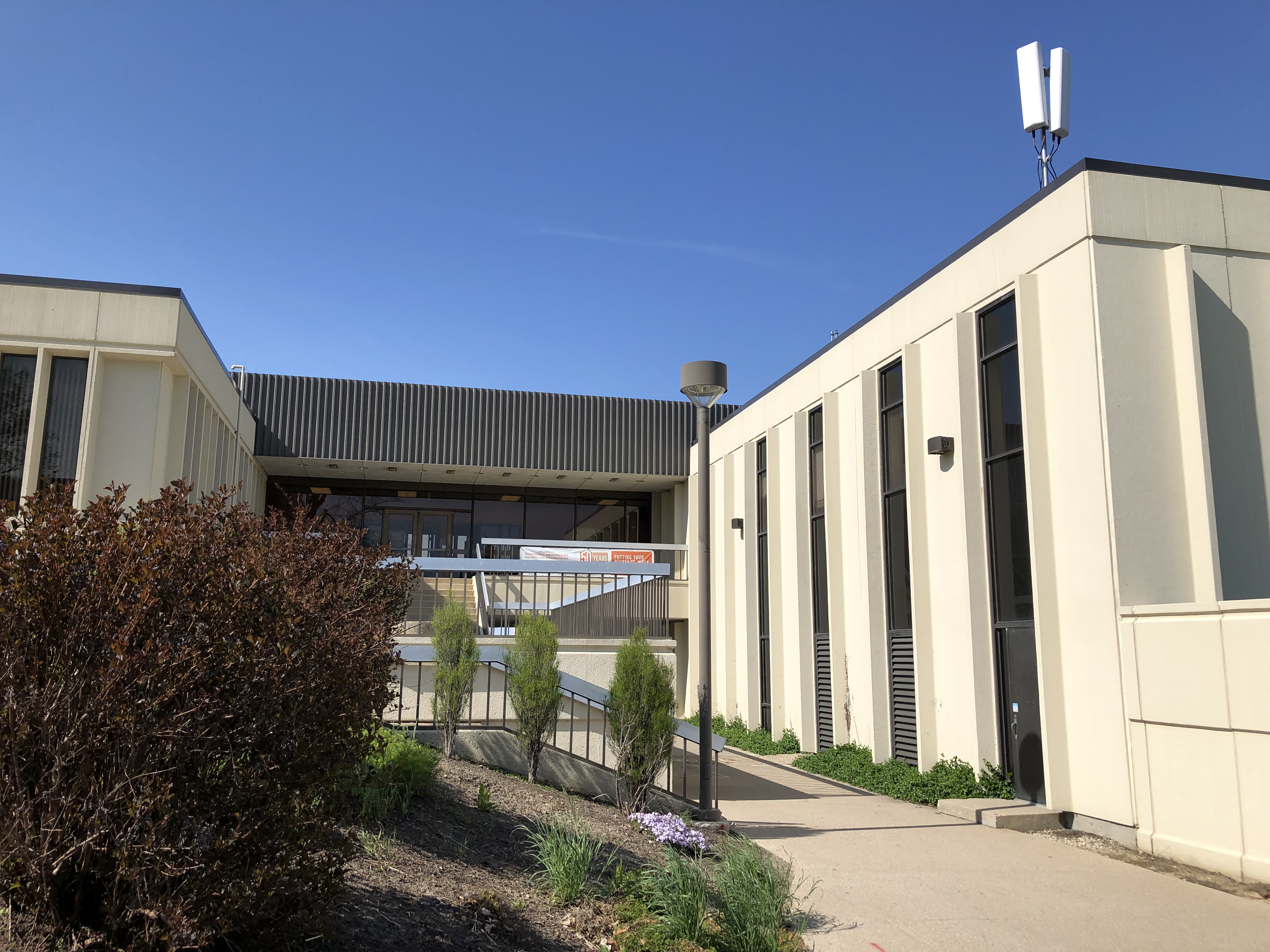 The Technology Building at Bowling Green State University. Primarily hosts Engineering, Visual Communication Technology, Mechitronics, and Aviation courses.